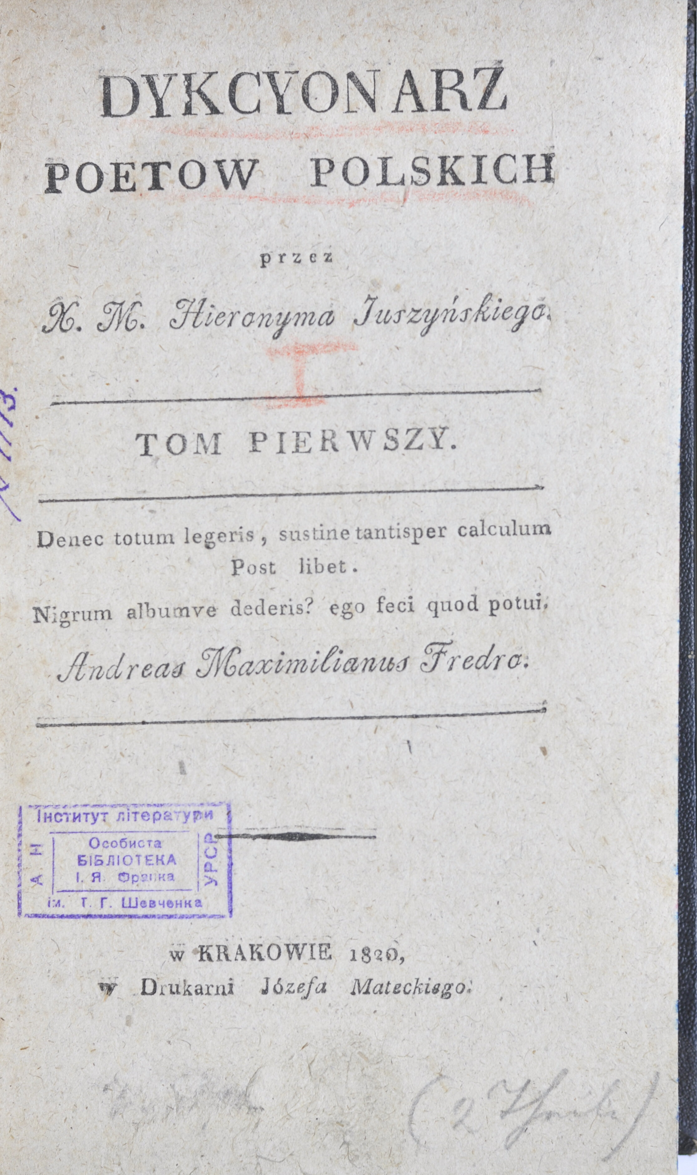 M. Yushynski. Dictionary of polish poets. Krakov, 1820. From Ivan Franko personal Library